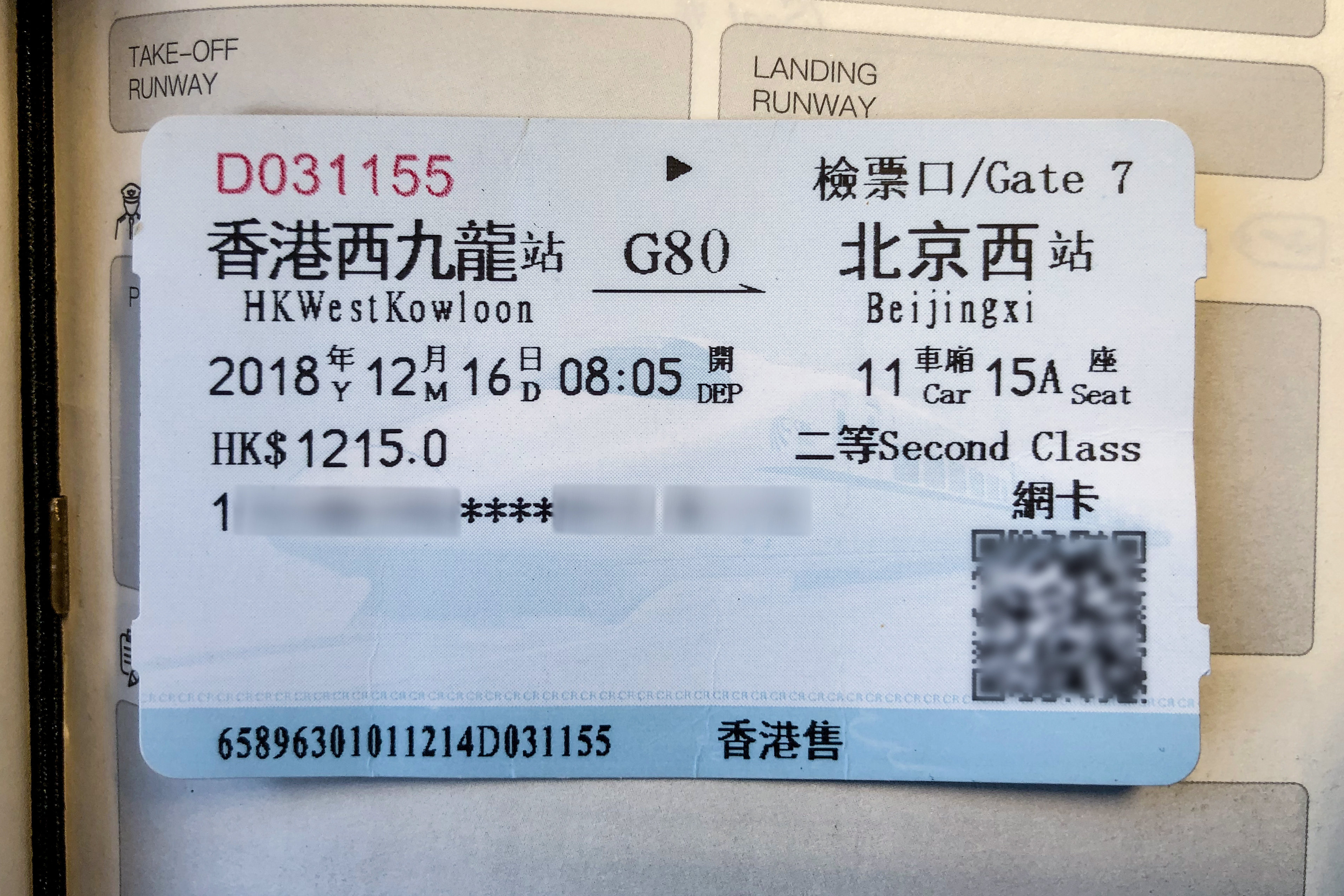 Full-journey from Hong Kong West Kowloon to Beijing West, which spends 9 hours. In fact, the train departed Hong Kong at 8:03 AM, and arrived Beijing West at 5:06 PM yesterday.